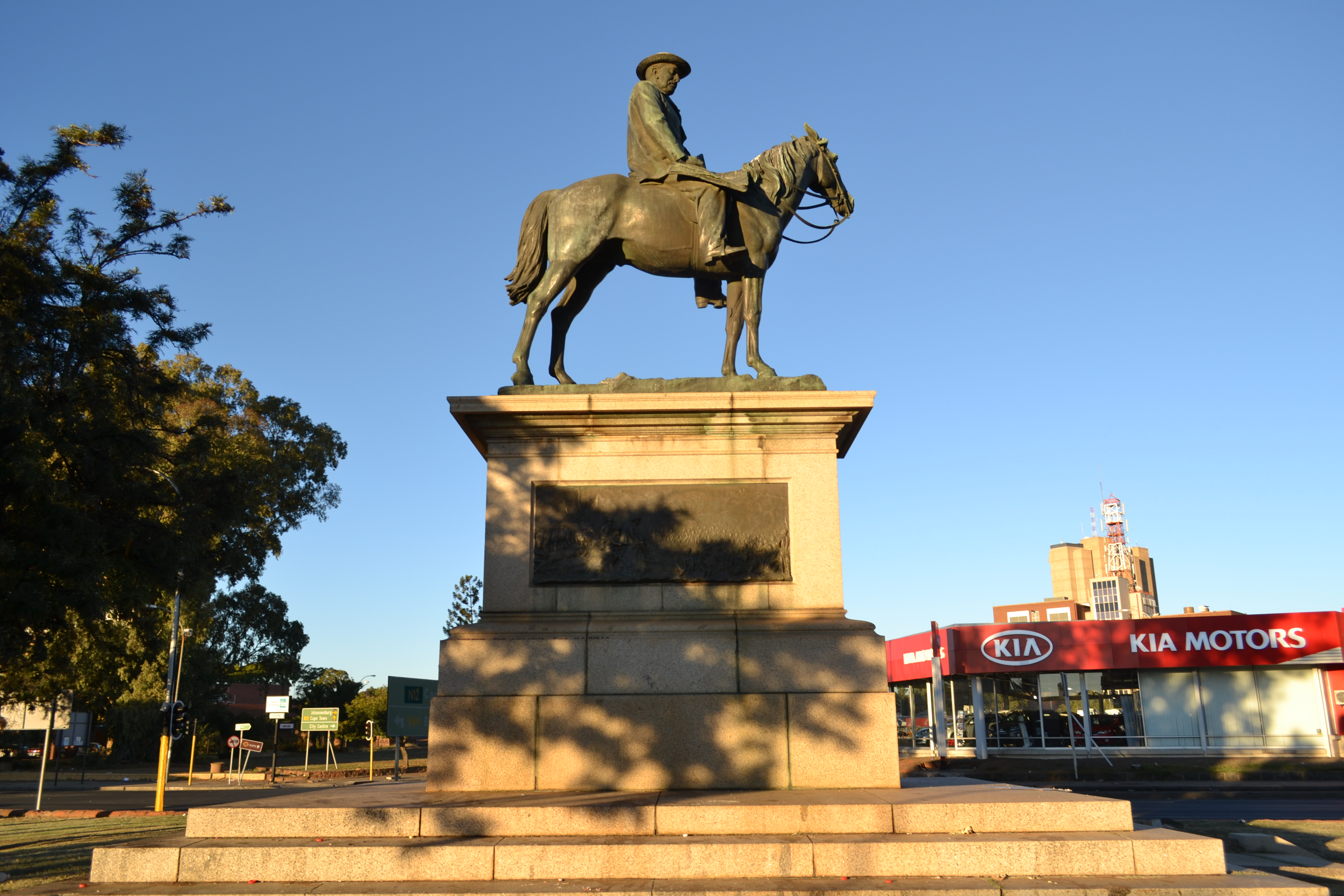 Cecil John Rhodes